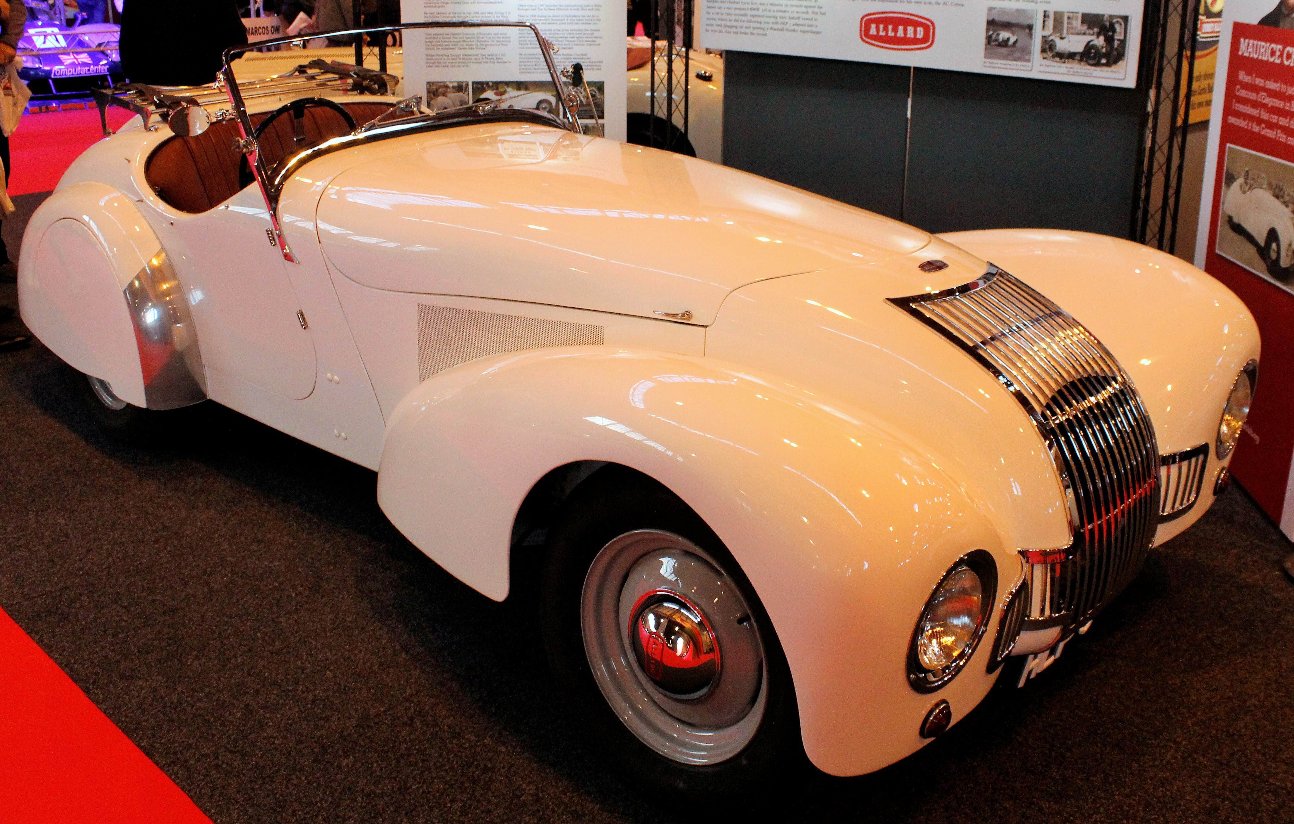 1946 Allard J1 NEC Classic car show 2015